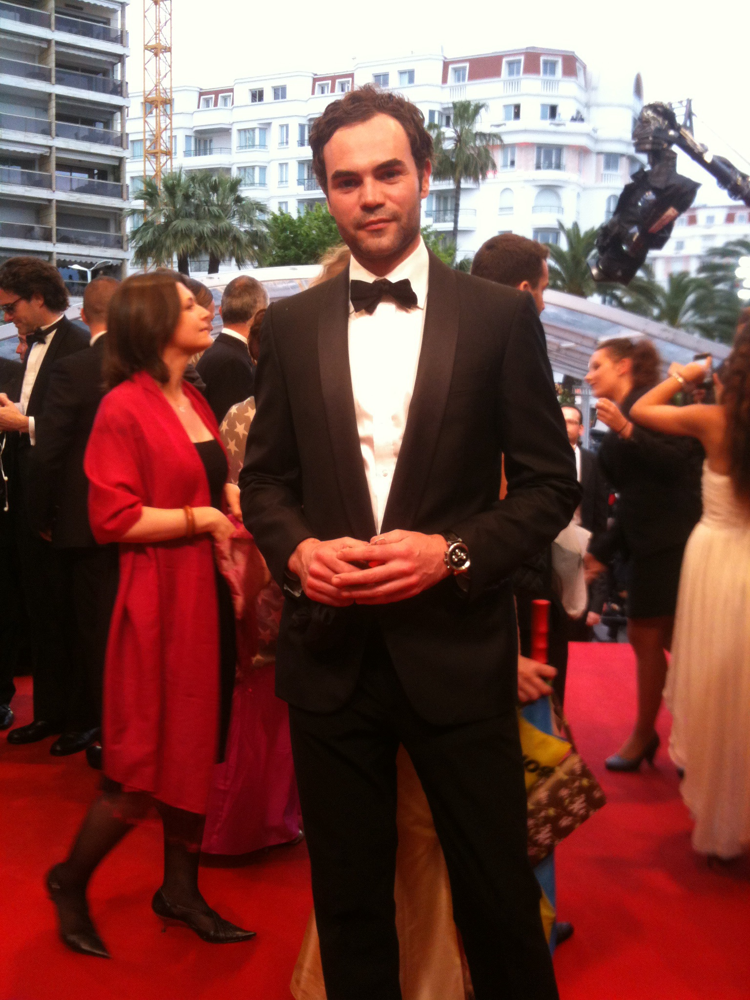 Antoine Michel at Cannes International Film Festival in 2013